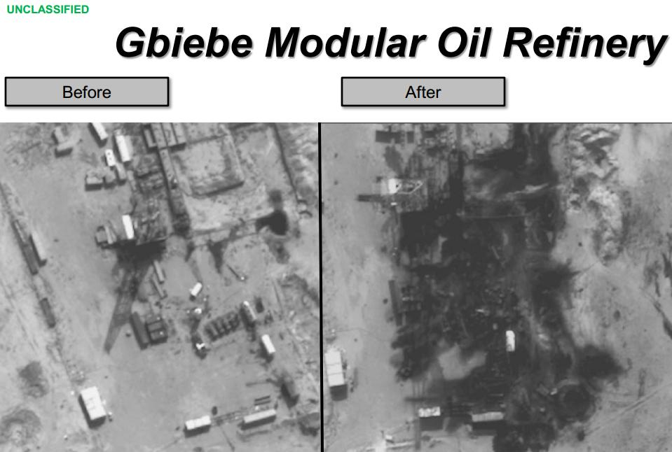 Slide presentation from Department of Defense Press Briefing by Rear Adm. Kirby in the Pentagon Briefing Room. Fighter aircraft from Saudi Arabia, United Arab Emirates and the United States attacked modular oil refineries in eastern Syria controlled by the Islamic State of Iraq and the Levant, Sept. 25, 2014.